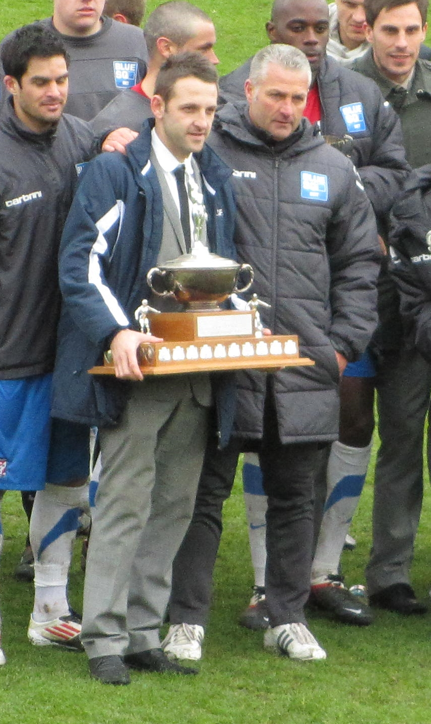 Scott Kerr (left) and Gary Mills (right) after York City's match against Forest Green Rovers at Bootham Crescent, York on 28 April 2012